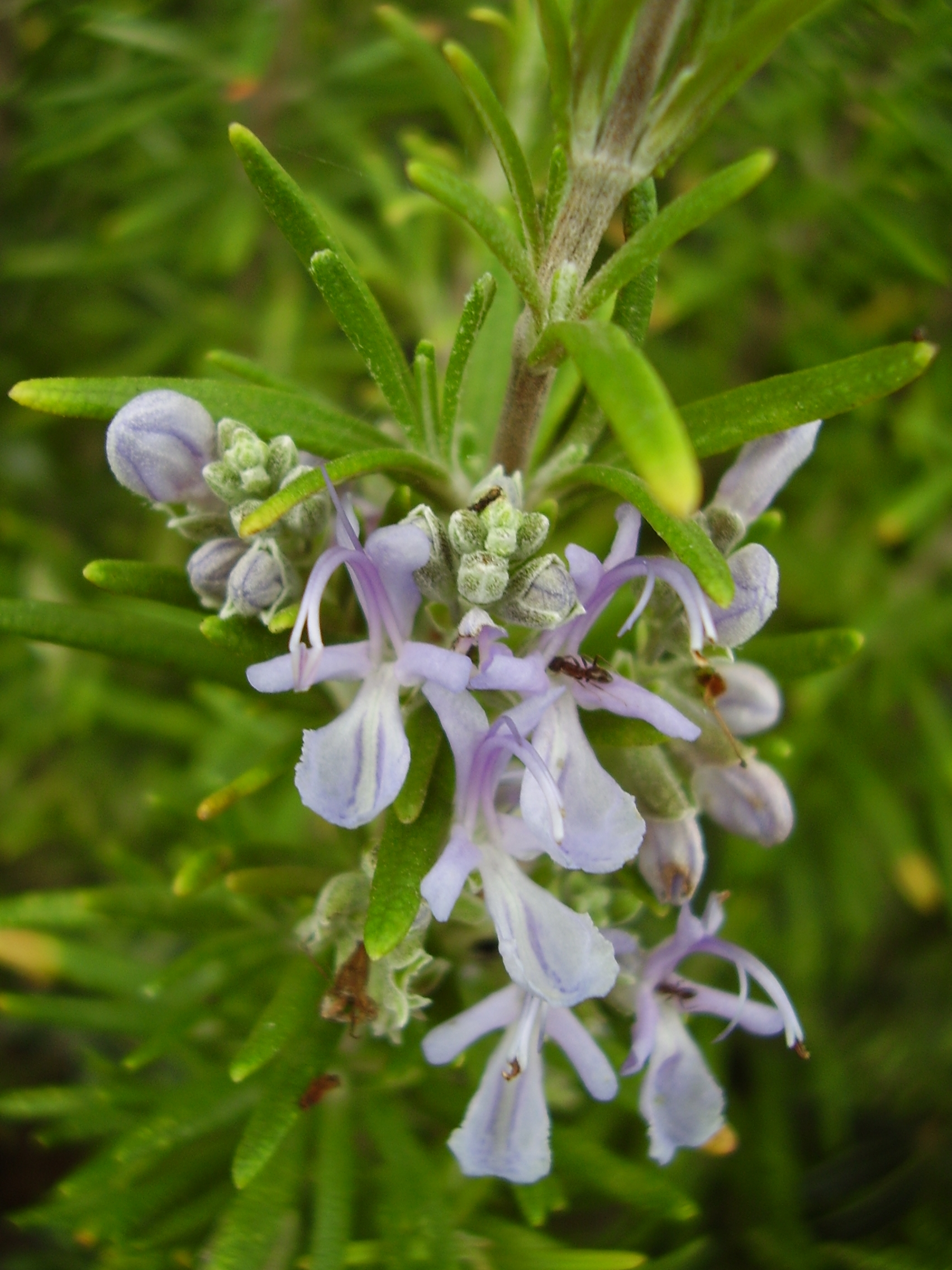 Rosemary flower(Rosmarinus officinalis), Mallorca.